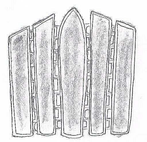 Indian Arm-Armour